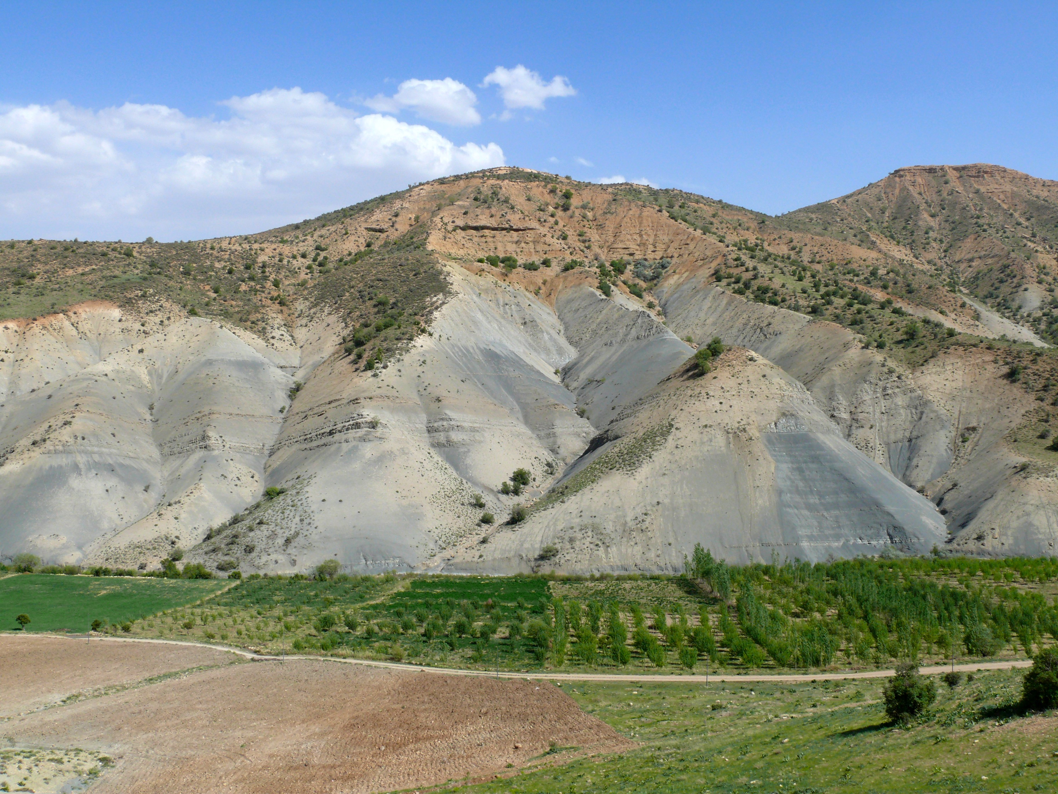 Rain falling on these limestone moutains create strange artworks: color nuances and rounds reliefs of a mount slowly collapsing into sands and dusts. The points where the slope is too high are those where the collaping speed is the fastest, and remain free of vegetation. Area of Margoon, Kohkiluyeh va Boyer Ahmad province, Iran, April 2008